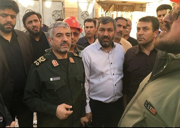 Major General Mohammad Ali Jafari, Commander-in-Chief of the Islamic Revolutionary Guard Corps, in the earthquake-stricken areas of Kermanshah.